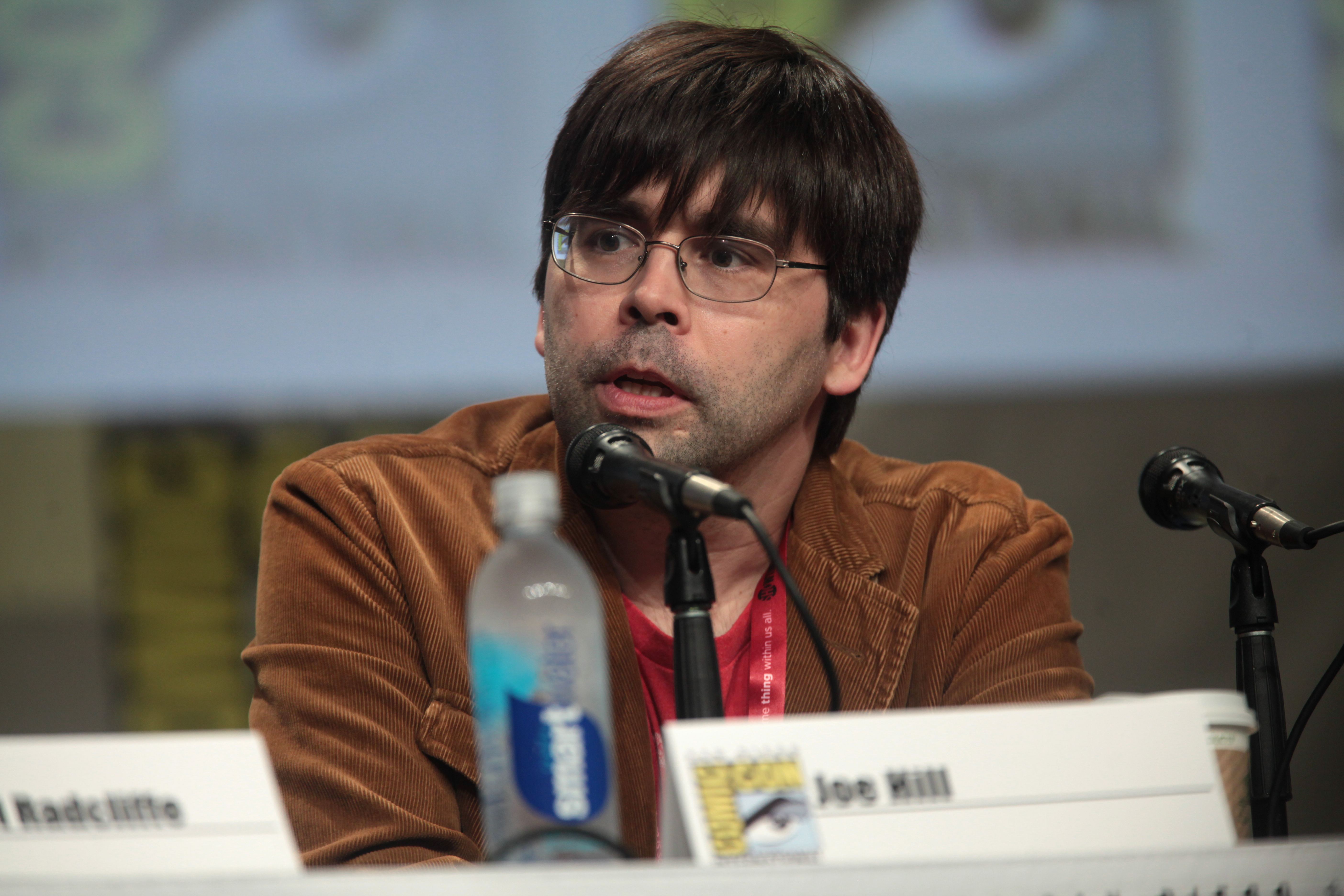 Joe Hill speaking at the 2014 San Diego Comic Con International, for "Horns", at the San Diego Convention Center in San Diego, California.